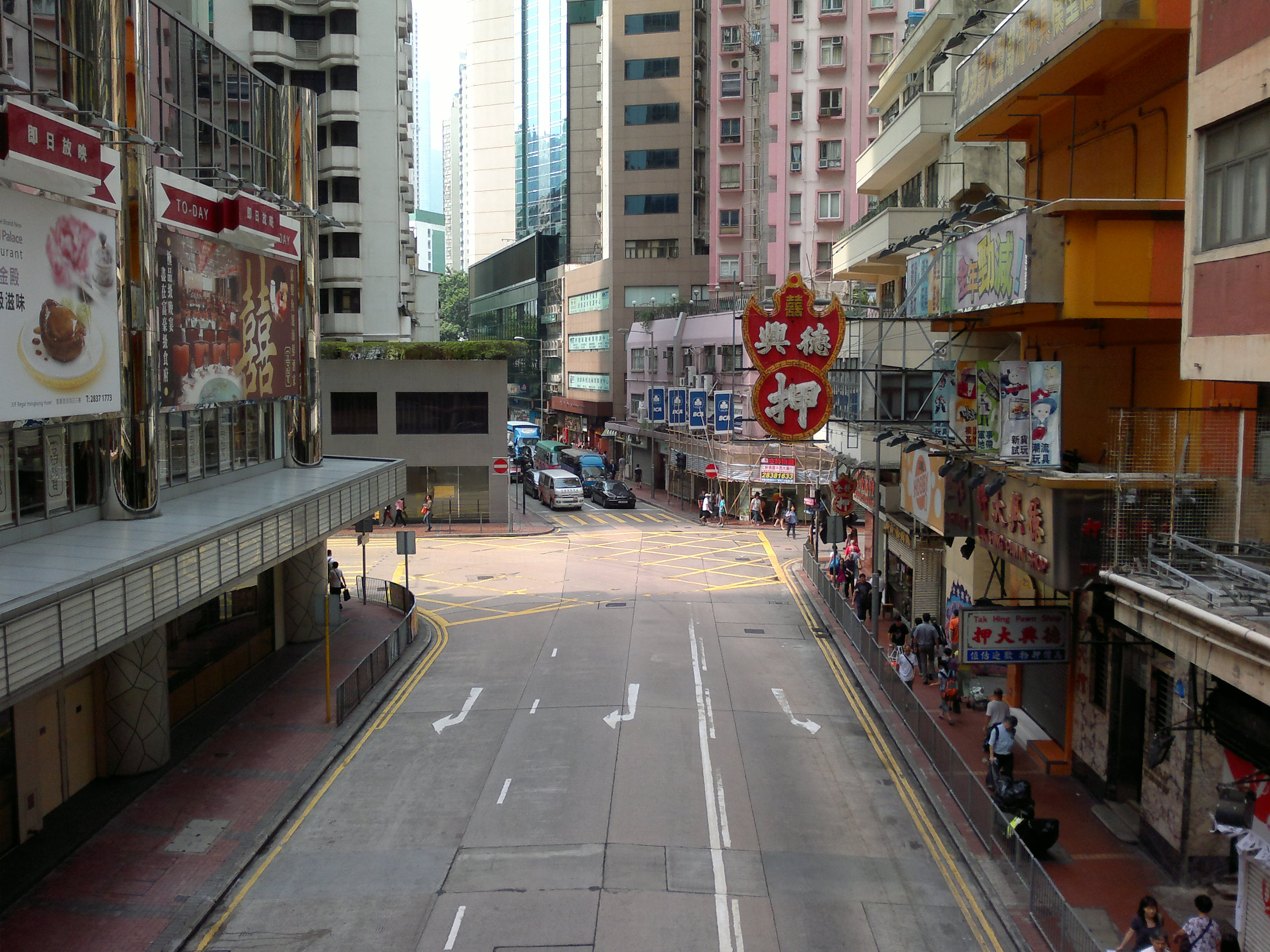 Pennington Street near Yee Wo Street